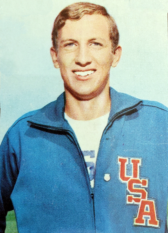 CAMPIONI DELLO SPORT 1969/70- n. 63 - FOSBURY (USA) -ATLETICA L.